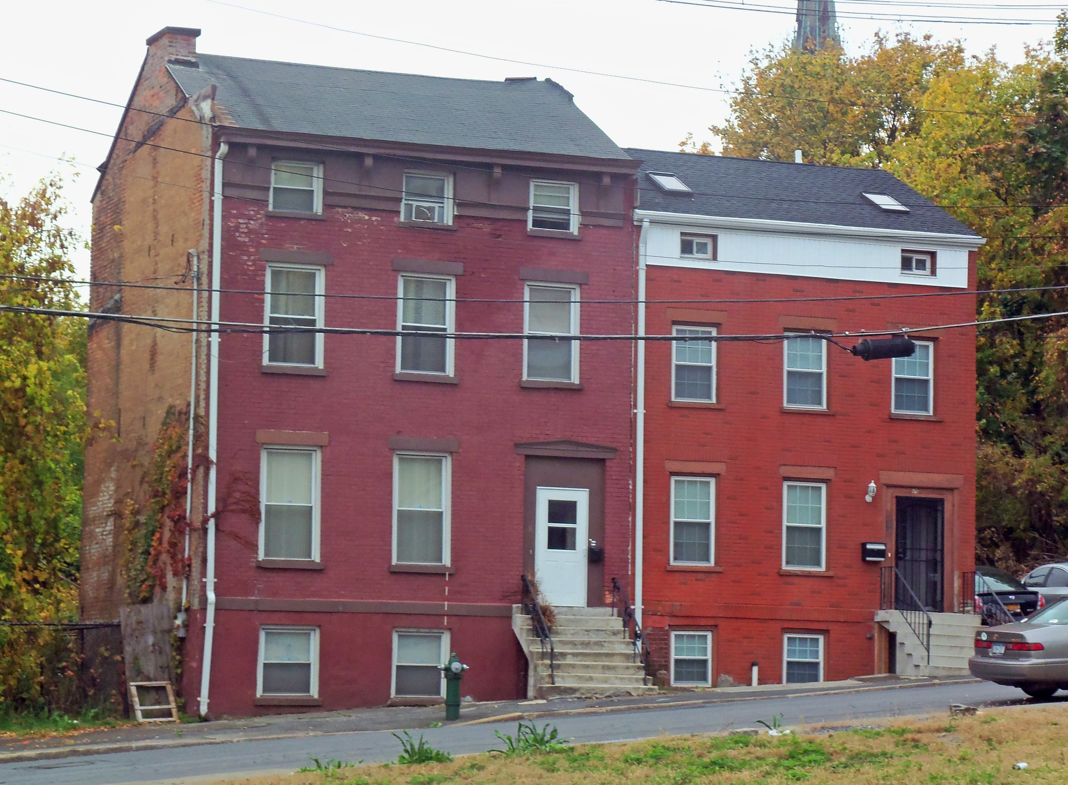 Buildings at 70 and 72 Livingston Avenue, Albany, NY, USA, contributing properties to the Broadway–Livingston Avenue Historic District